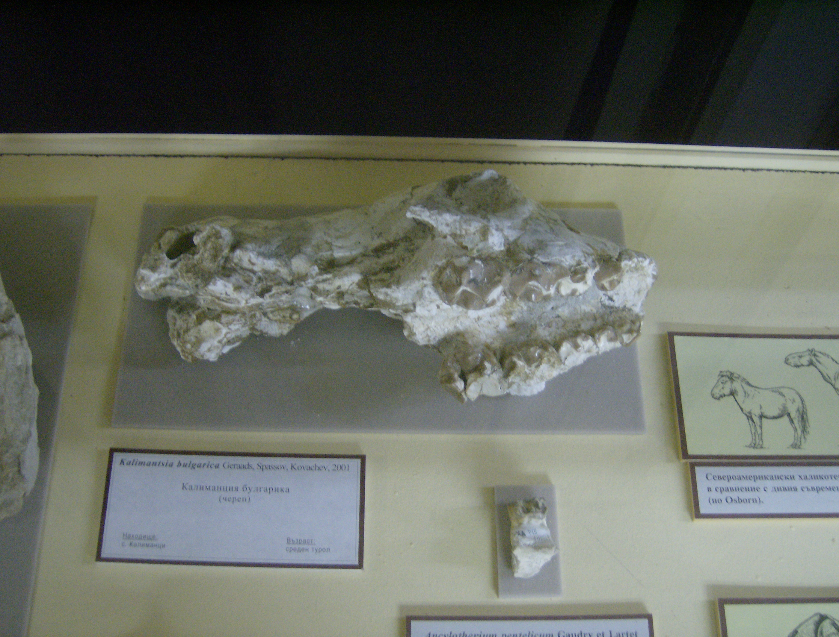 Kalimantsia bulgarica, Asenovgrad Paleonthological Museum